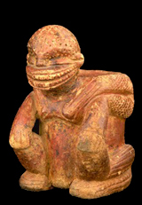 Cultura Calima. Museo del oro de Bogota.